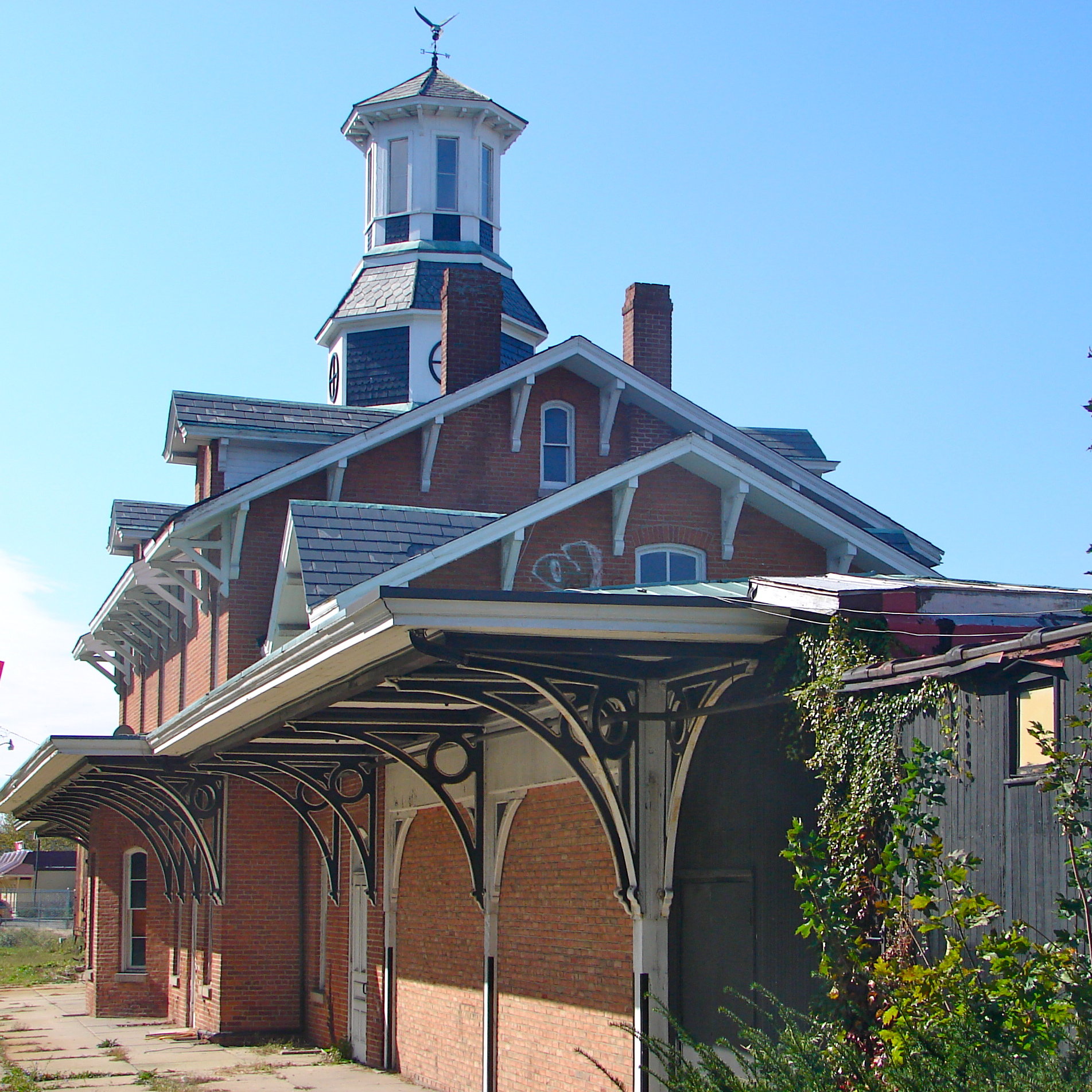 Central Railroad of New Jersey Station on the NRHP since May 12, 1975 31–35 South Baltimore Street, Wilkes-Barre, Luzerne County, Pennsylvania